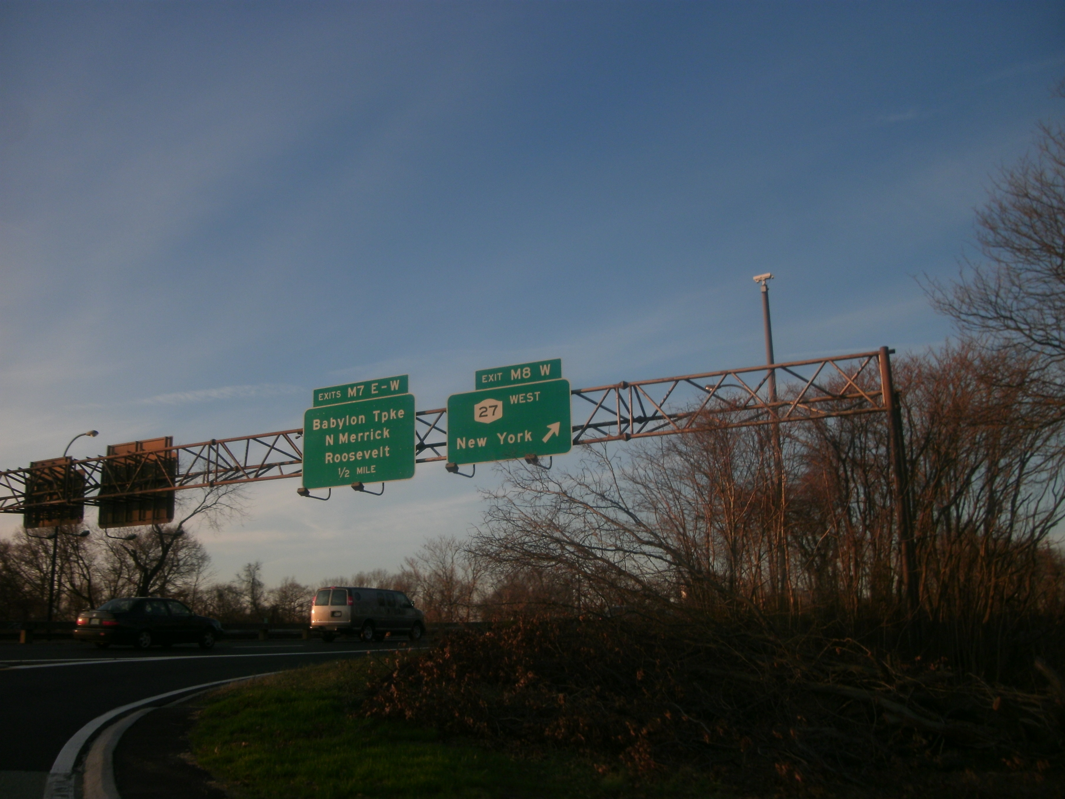 Signs along the Meadowbrook State Parkway from the ramp of New York State Route 27.